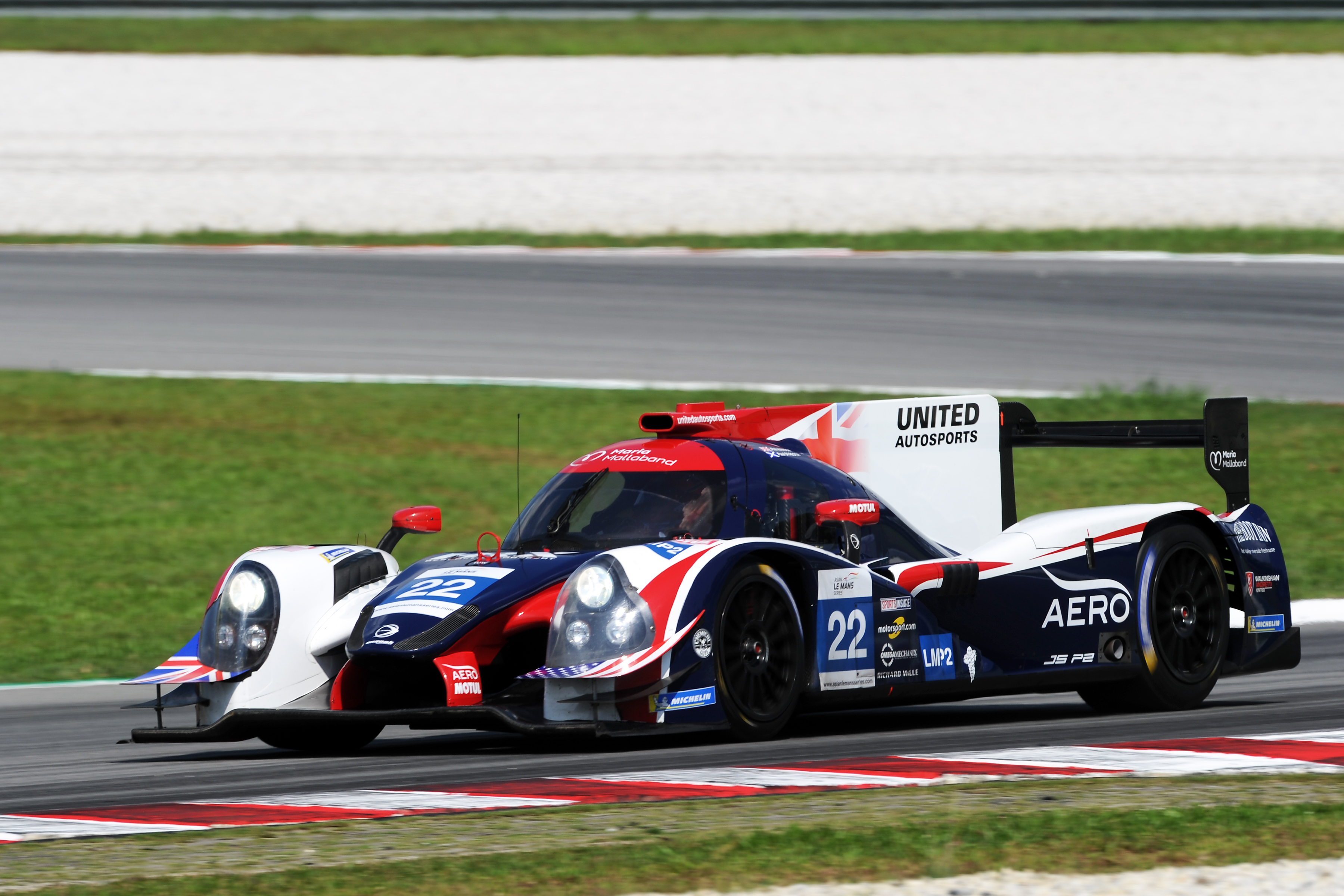 United Autosports's Ligier JSP2 Nissan Driven by Phil Hanson and Paul Di Resta